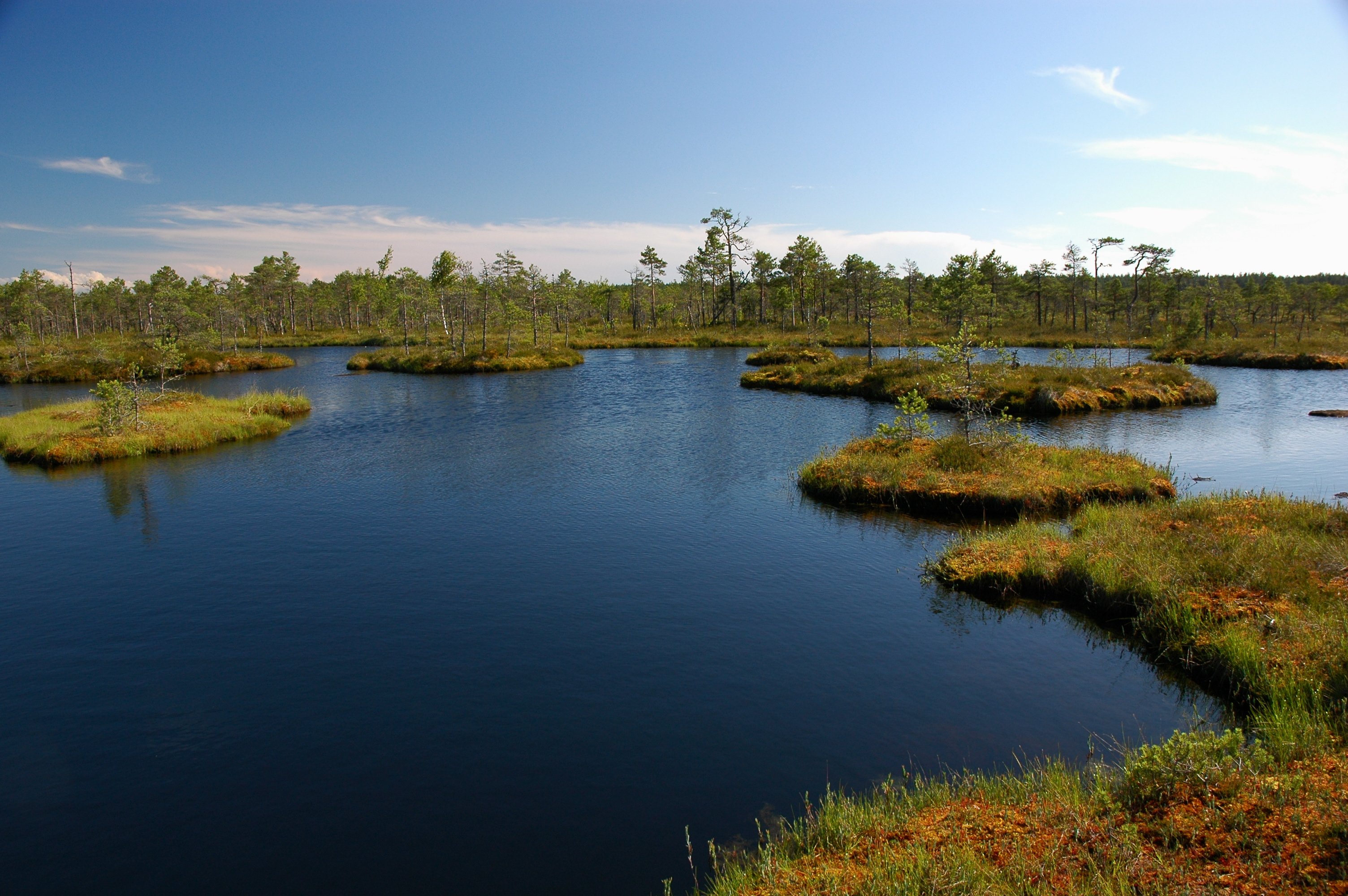 Bog pools of Selisoo bog, Ida-Viru County, Estonia